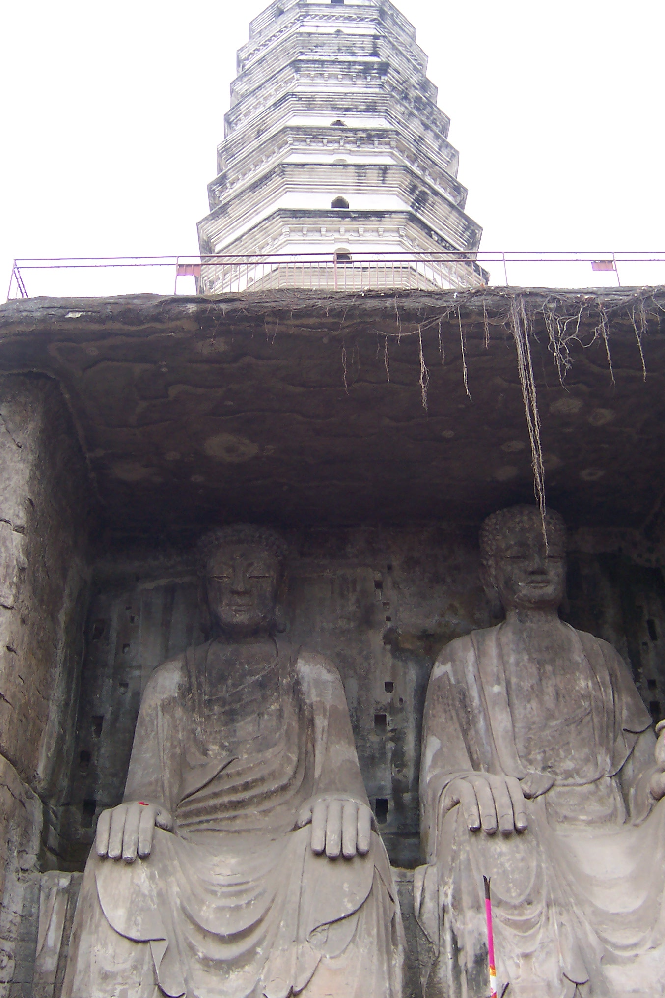 Dazu rock carvings, beishan pagoda with buddhas carved into mountain below